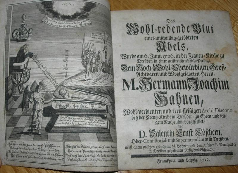 Title page and frontispiece of Löscher, Valentin Ernst: Das Wohl-redende Blut eines unschuldig-getödteten Abels, Wurde am 6. Junii 1726. in der Frauen-Kirche zu Dreßden in einer geistreichen Leich-Predigt, Dem Hoch-Wohl-Ehrwürdigen, Groß-Achtbaren und Wohlgelahrten Herrn, M. Hermann Joachim Hahnen, Wohl-verdienten und treu-fleißigen Archi-Diacono bey der Creutz-Kirche in Dreßden, zu Ehren und seligem Nachruhm vorgestellet, von D. Valentin Ernst Löschern, Ober-Consistoriali und Superintendenten in Dreßden, nebst einem zwischen gedachtem M. Hahnen und den Jesuiten P. Nonnhardt, in Dreßden gehaltenen Religions-Gespräche. Frankfurt und Leipzig 1726